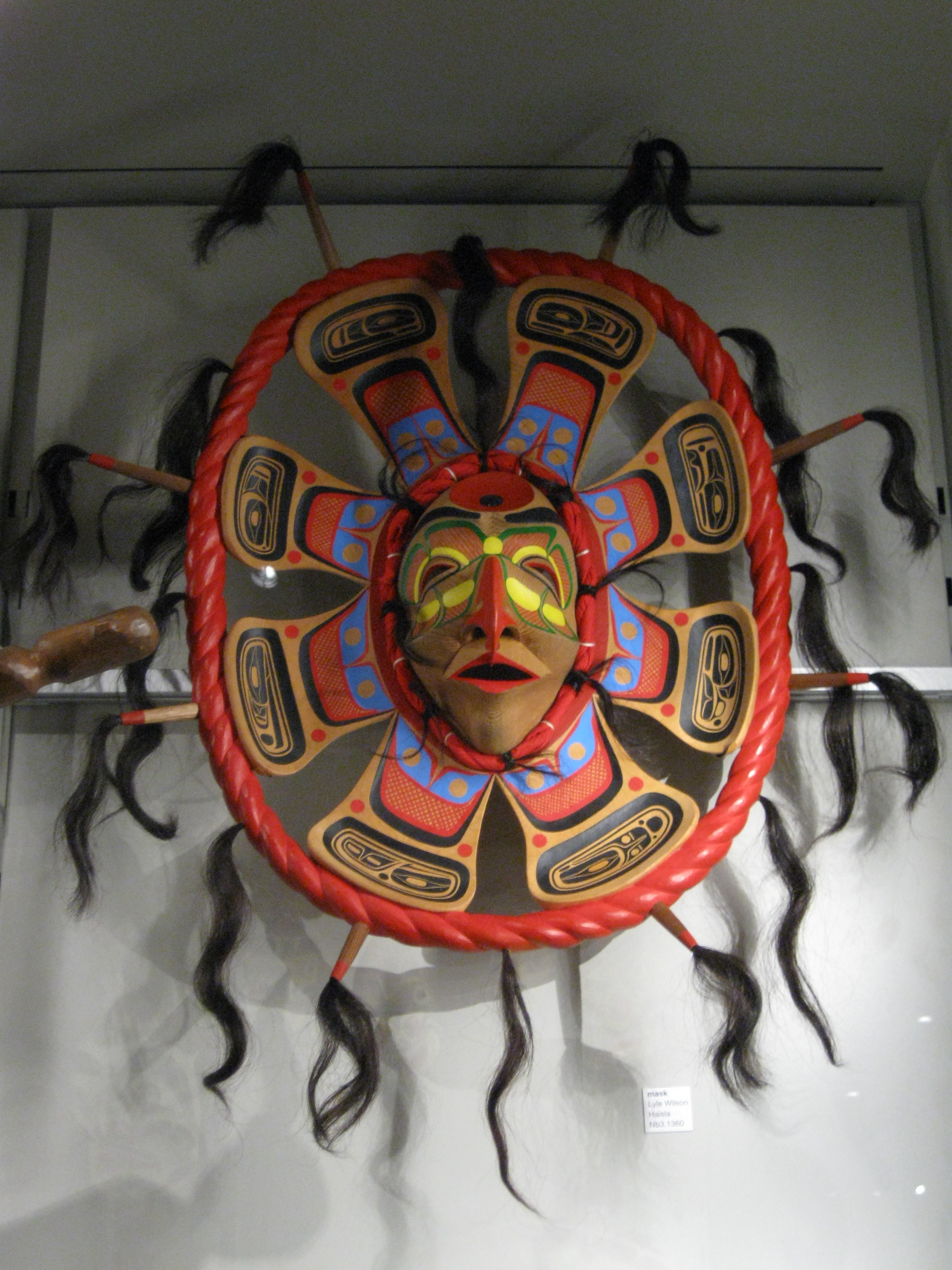 A brightly painted native Indian Haisla mask in the collection of the UBC Museum of Anthropology in Vancouver, Canada. Its UBC museum catalogue number is Nb3.1360 and this object was created by Lyle Wilson.